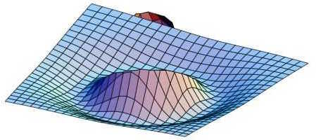 3D view of 2D Mexican hat wavelet or Marr wavelet (after David Marr)